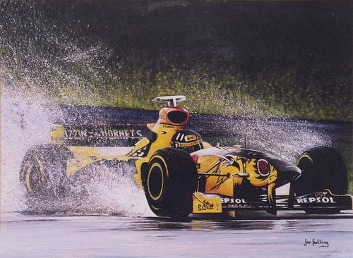 Painted In gouache.